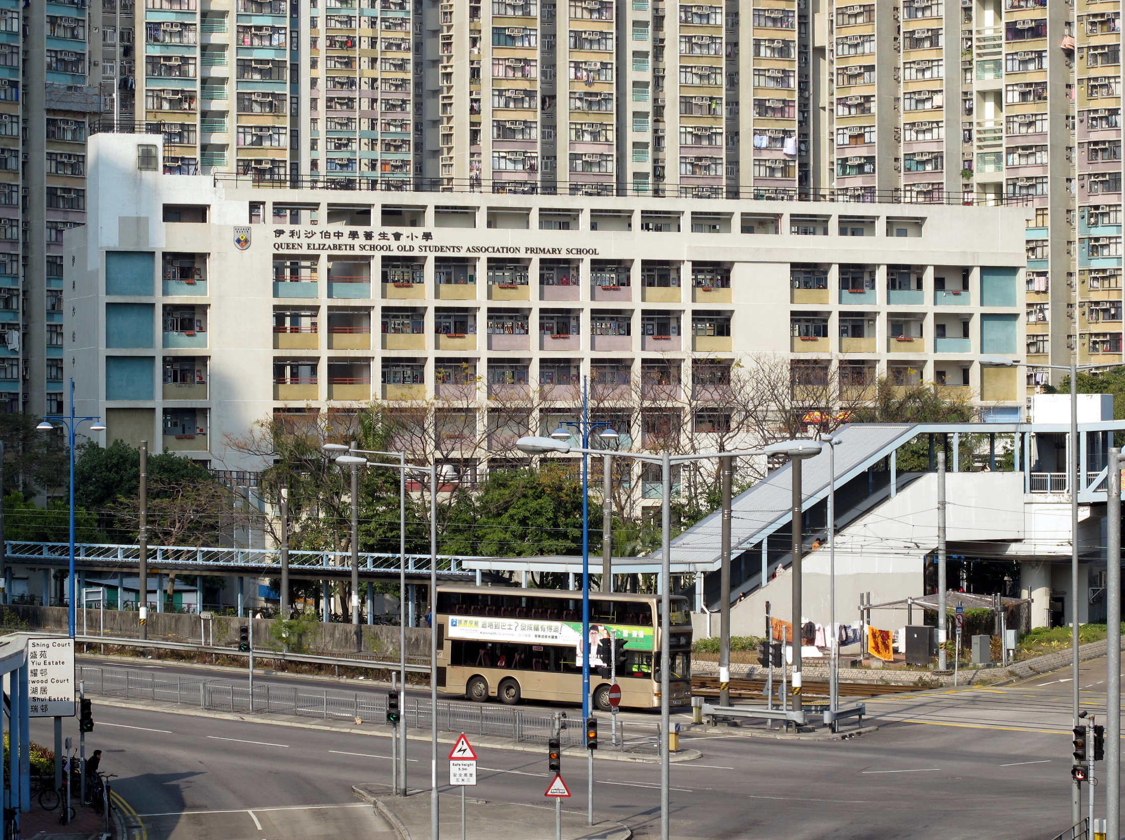 Queen Elizabeth School Old Student's Association Primary School